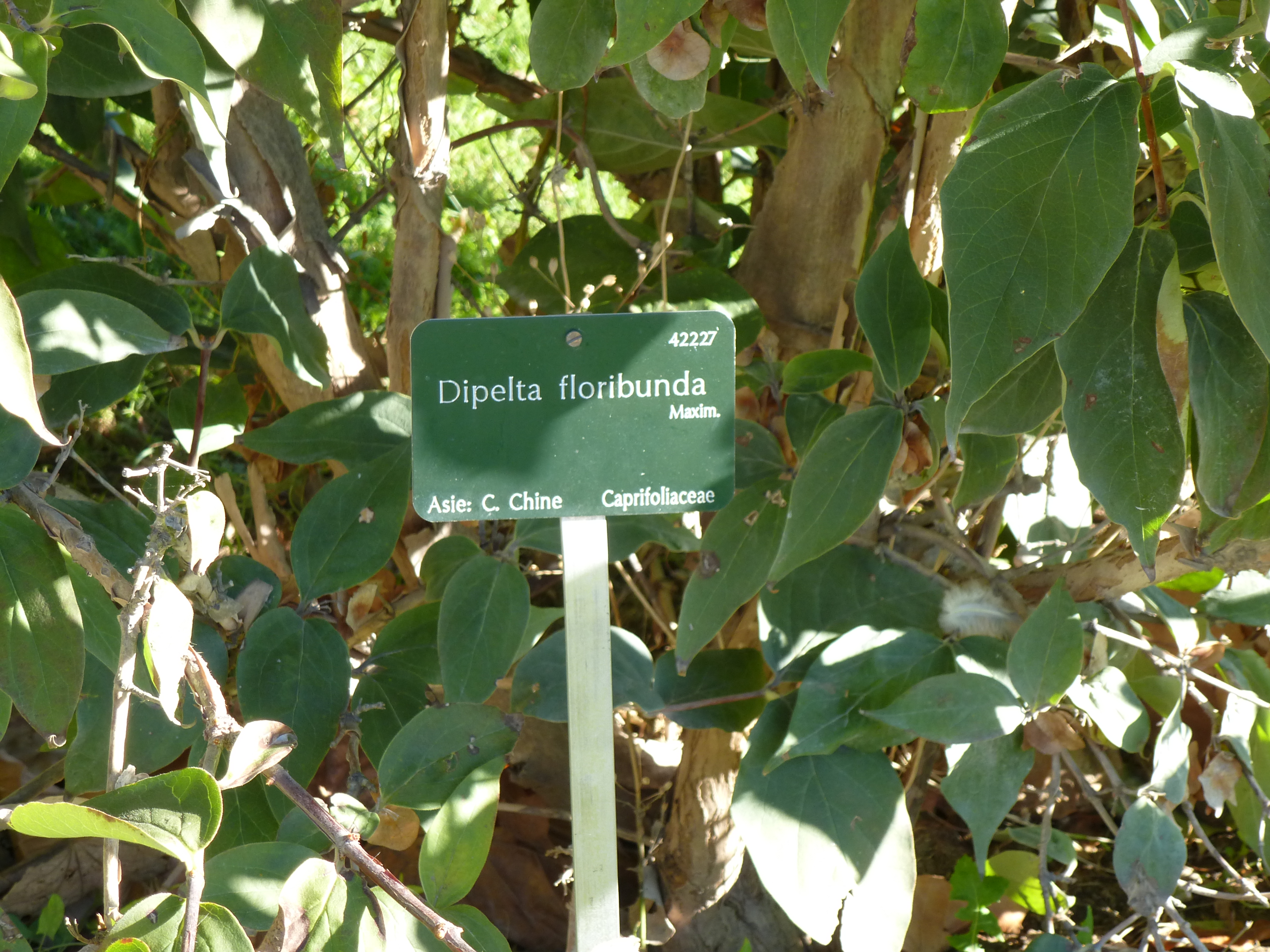 Dipelta floribunda in Jardin des plantes. Muséum national d'Histoire naturelle. 75005 Paris, France.